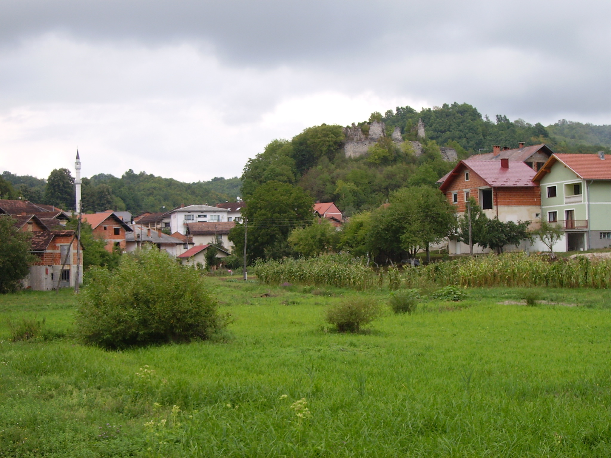 View on town and castle of Vrnograč, Western Bosnia.